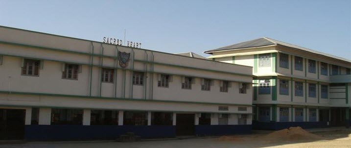 School Building